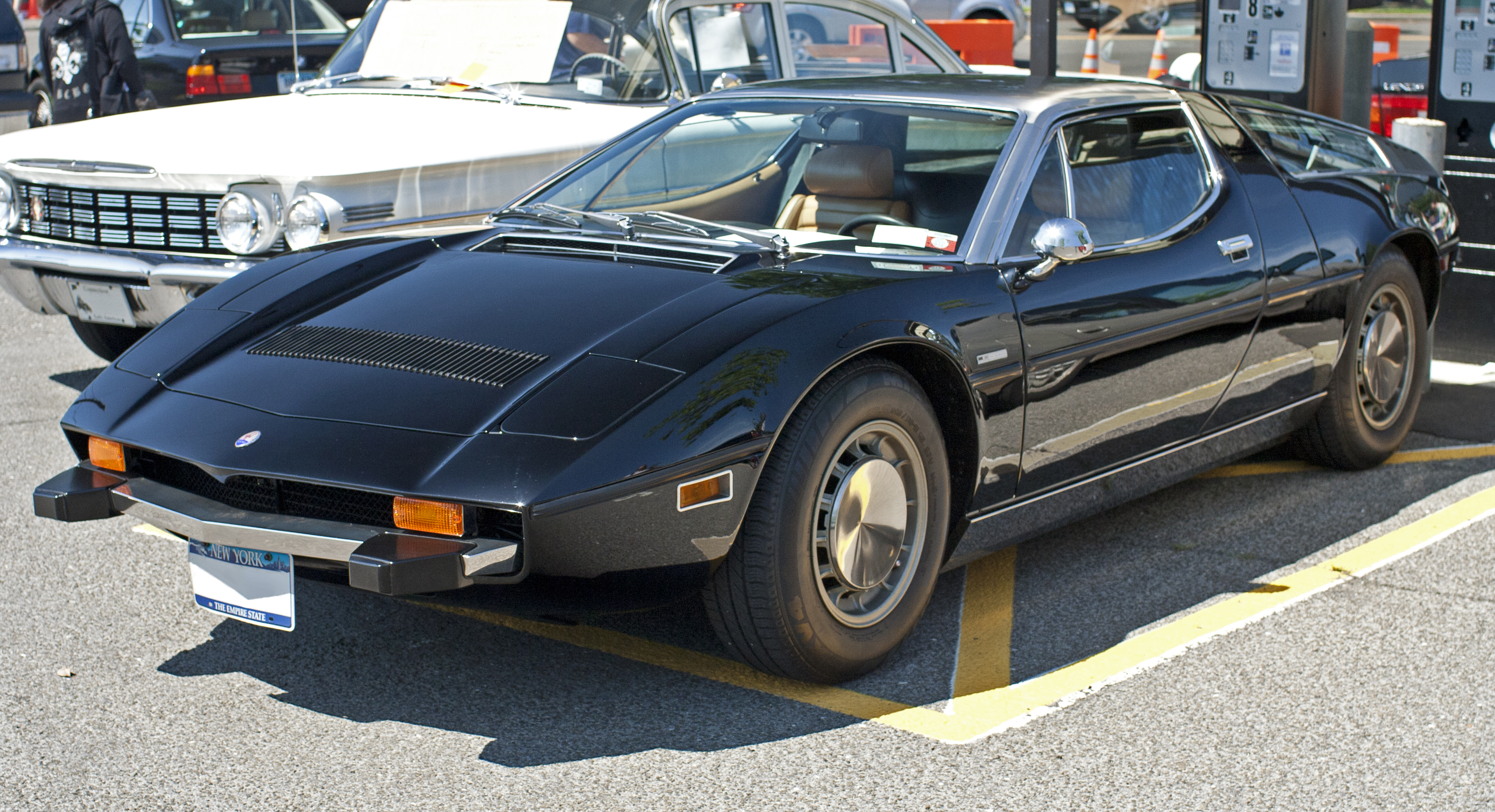 US-spec 1974 Maserati Bora 4.9 litre (Series 117.49, chassis #688), from the first year that they were readily available in the US. Taken in the parking lot of the 2012 Greenwich Concours d'Elegance